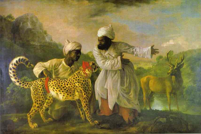 Cheetah with Two Indian Attendants and a Stag. Oil on canvas.